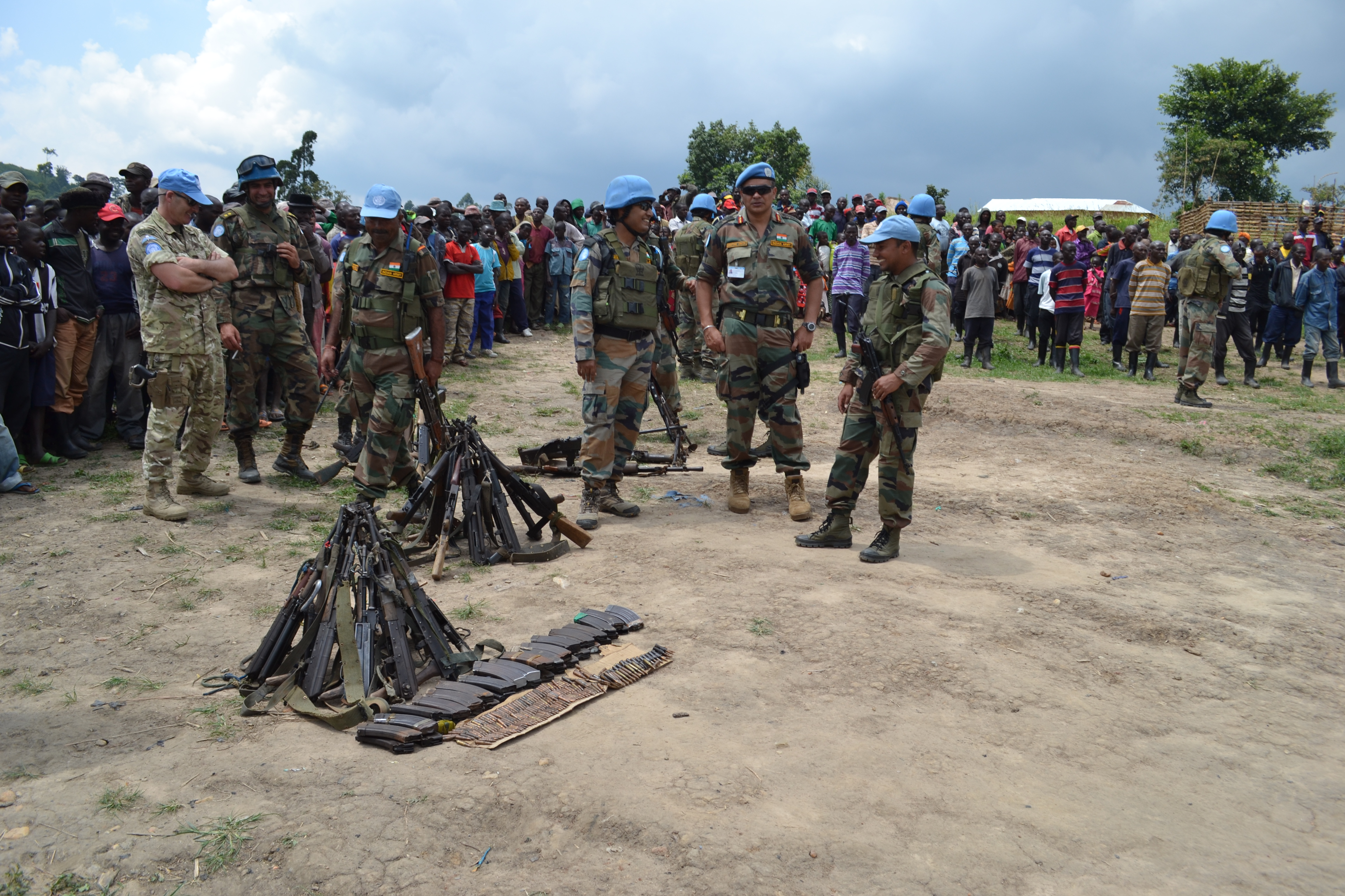 Buleusa village, North Kivu, 28 December 2014: Voluntary surrender and disarmament ceremony of former FDLR combatants. Photo MONUSCO Force